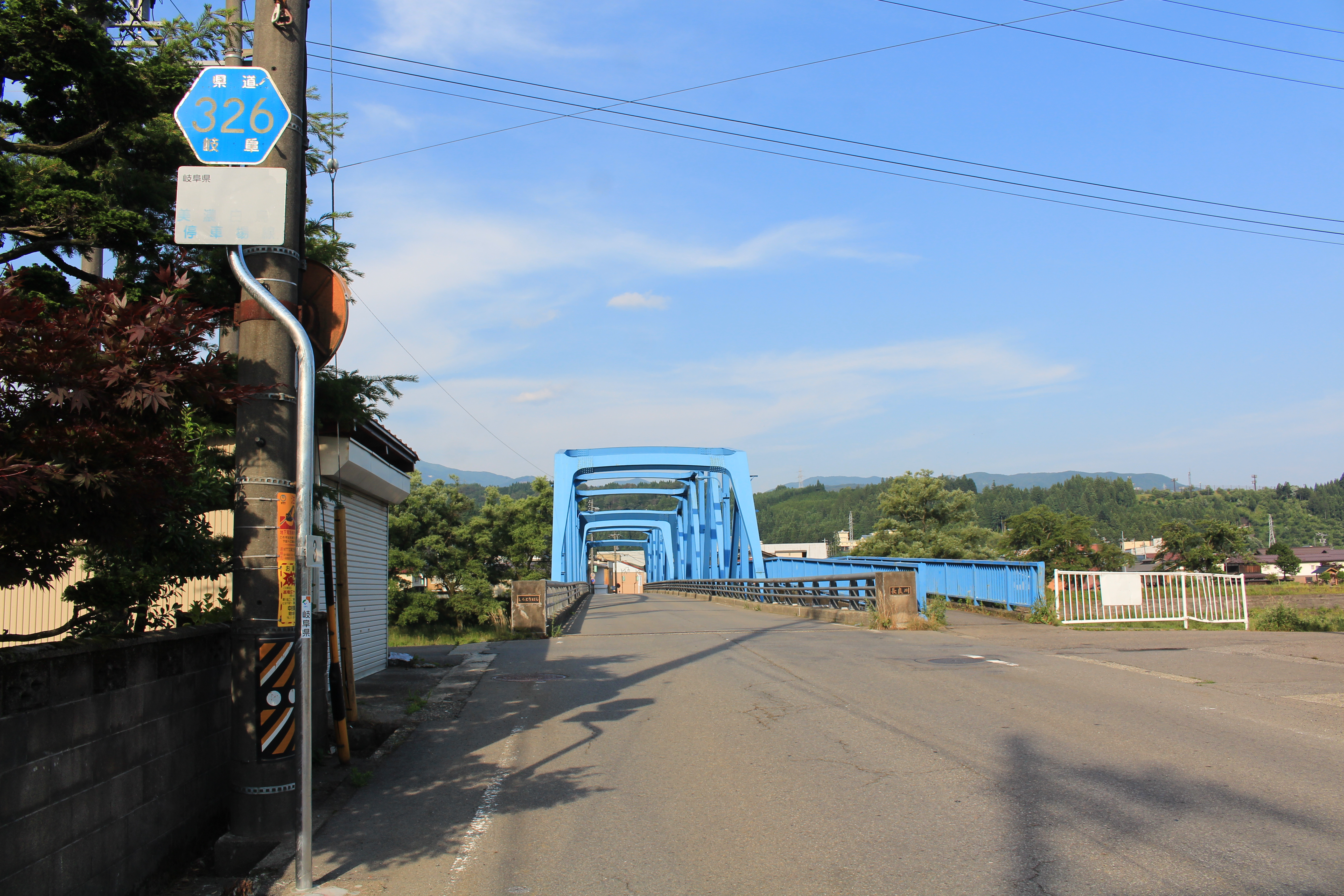 Shirotori Bridge of Gifu Prefectural Road Route 326 over Nagara River in Shirotori, Gujo, Gifu prefecture, Japan.